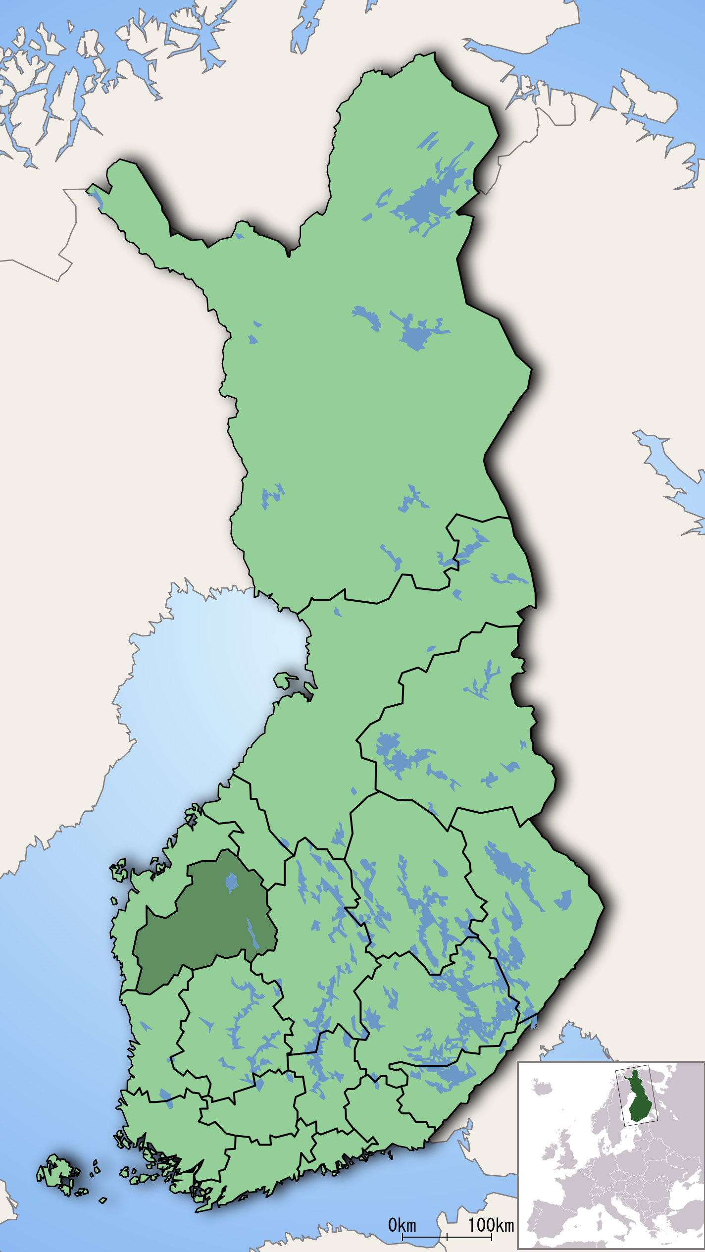 Finnish province of Etelä-Pohjanmaa